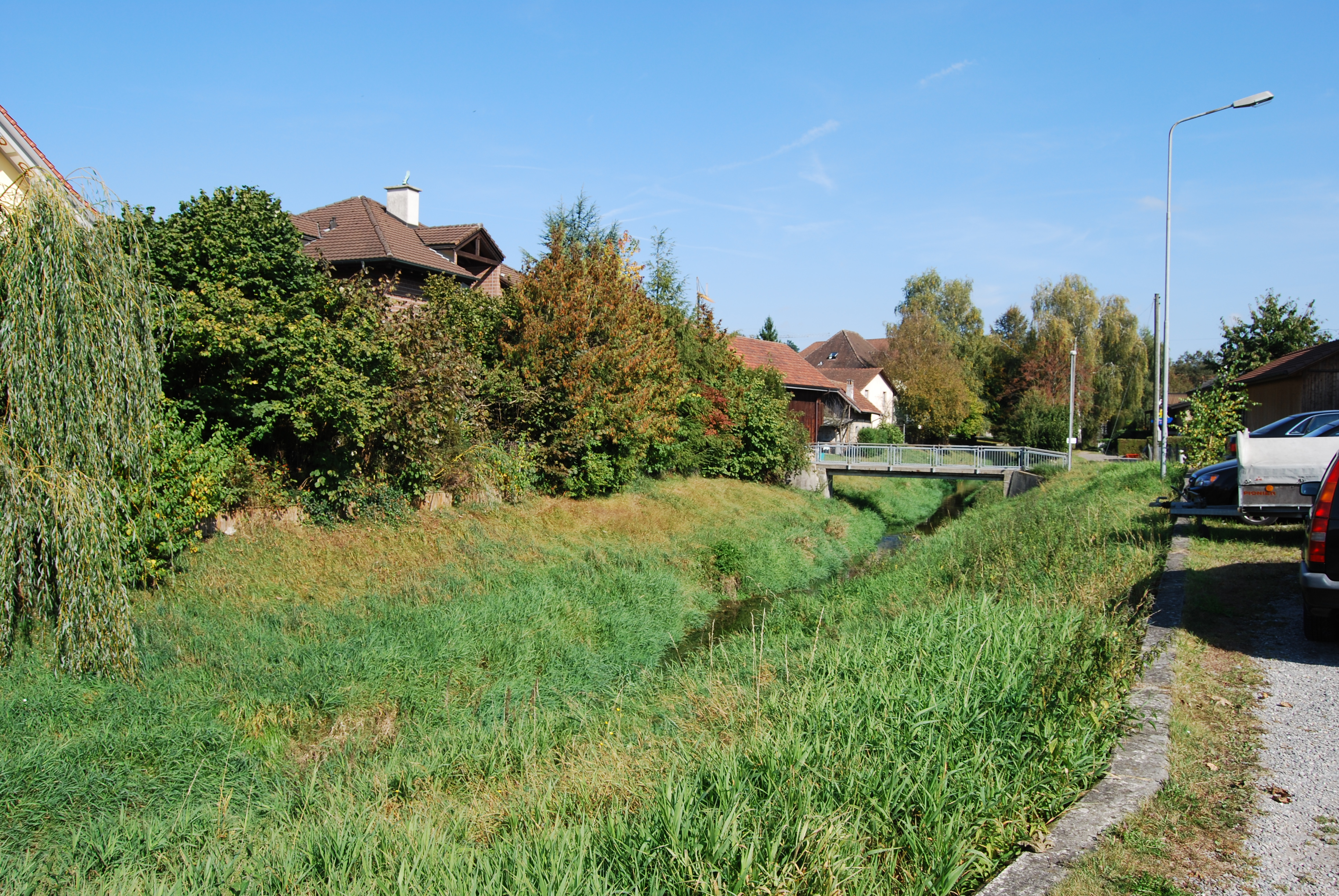 River Bünz at Waltenschwil, canton of Aargau, SwitzerlandEsperanto: Rivereto Bünz en Waltenschwil, Kantono Argovio, Svislando